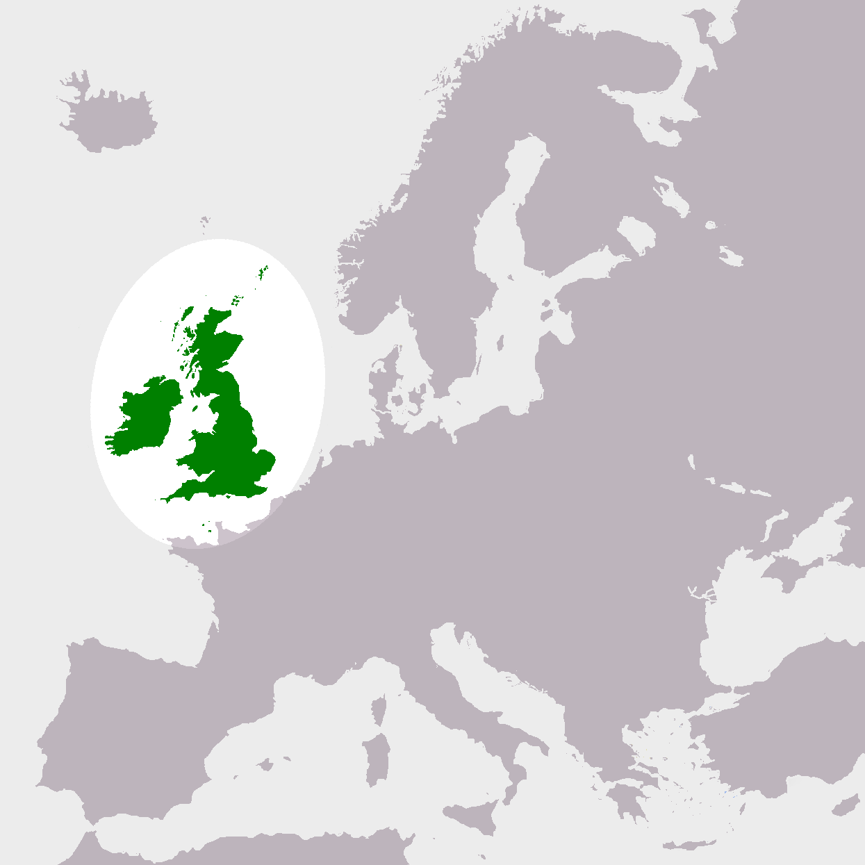 Location map of Great Britain and Ireland, without national borders.